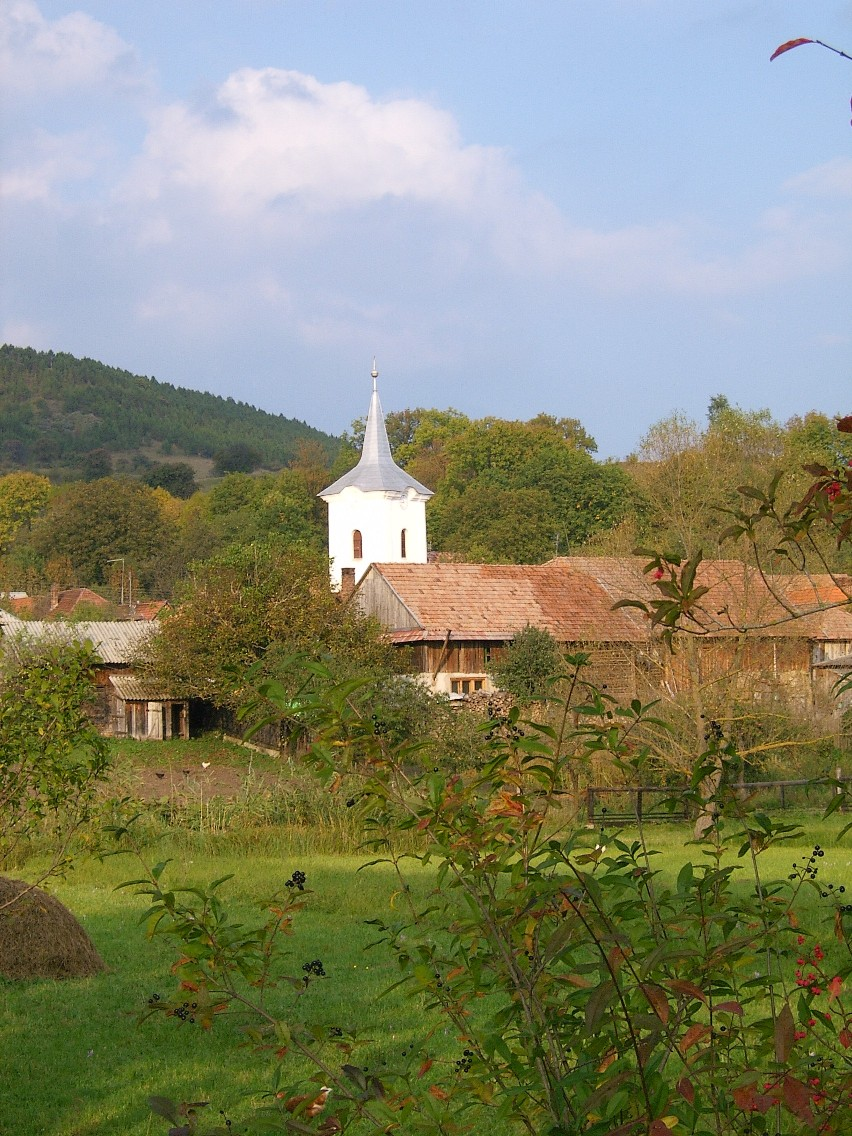 View from Horlacea, Cluj county, Romania